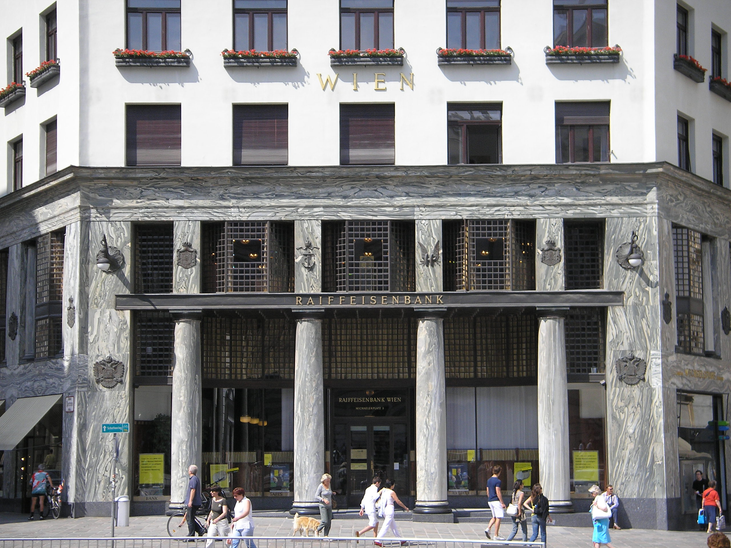 View of the Looshaus in Vienna.